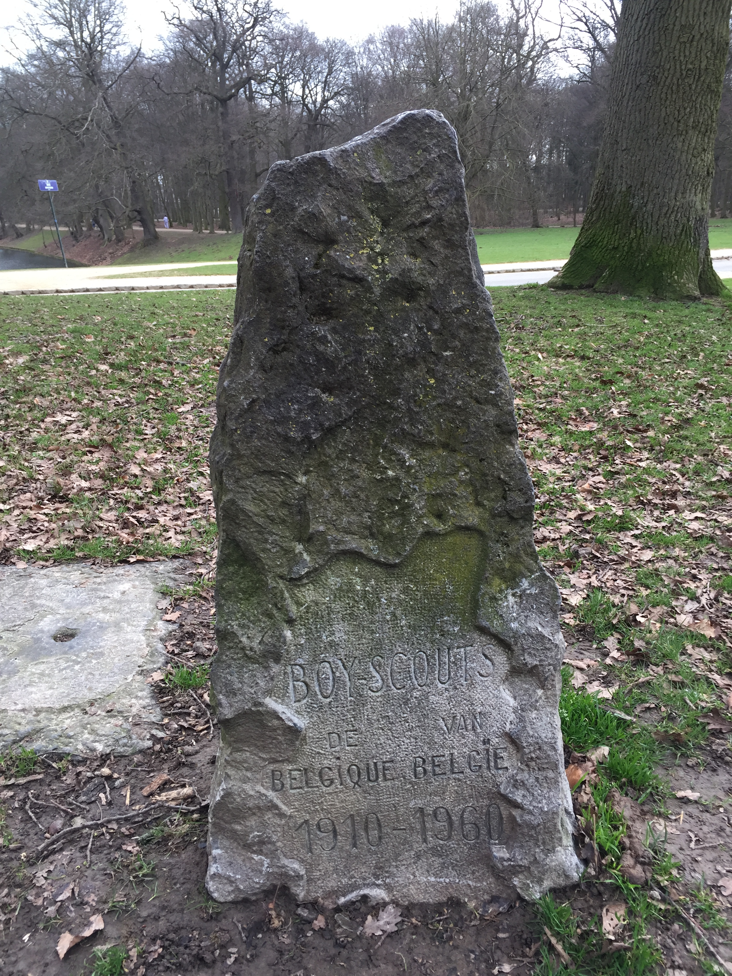 50th Anniversary of the BOY-SCOUTS of Belgium 1910-1960